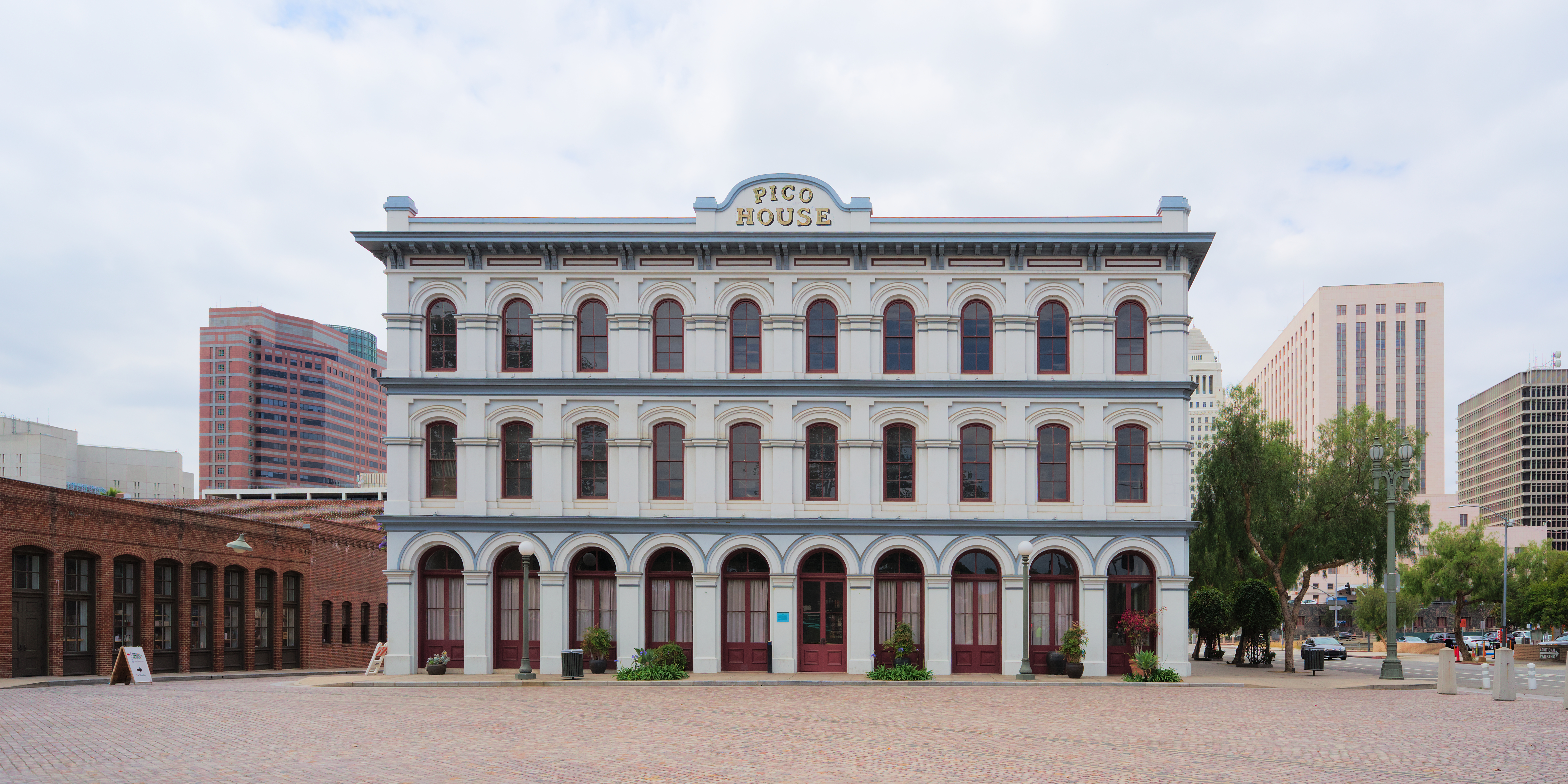 The Pico House was built in 1870 by former Governor Pio Pico, as an Italianate style luxury hotel in Los Angeles.